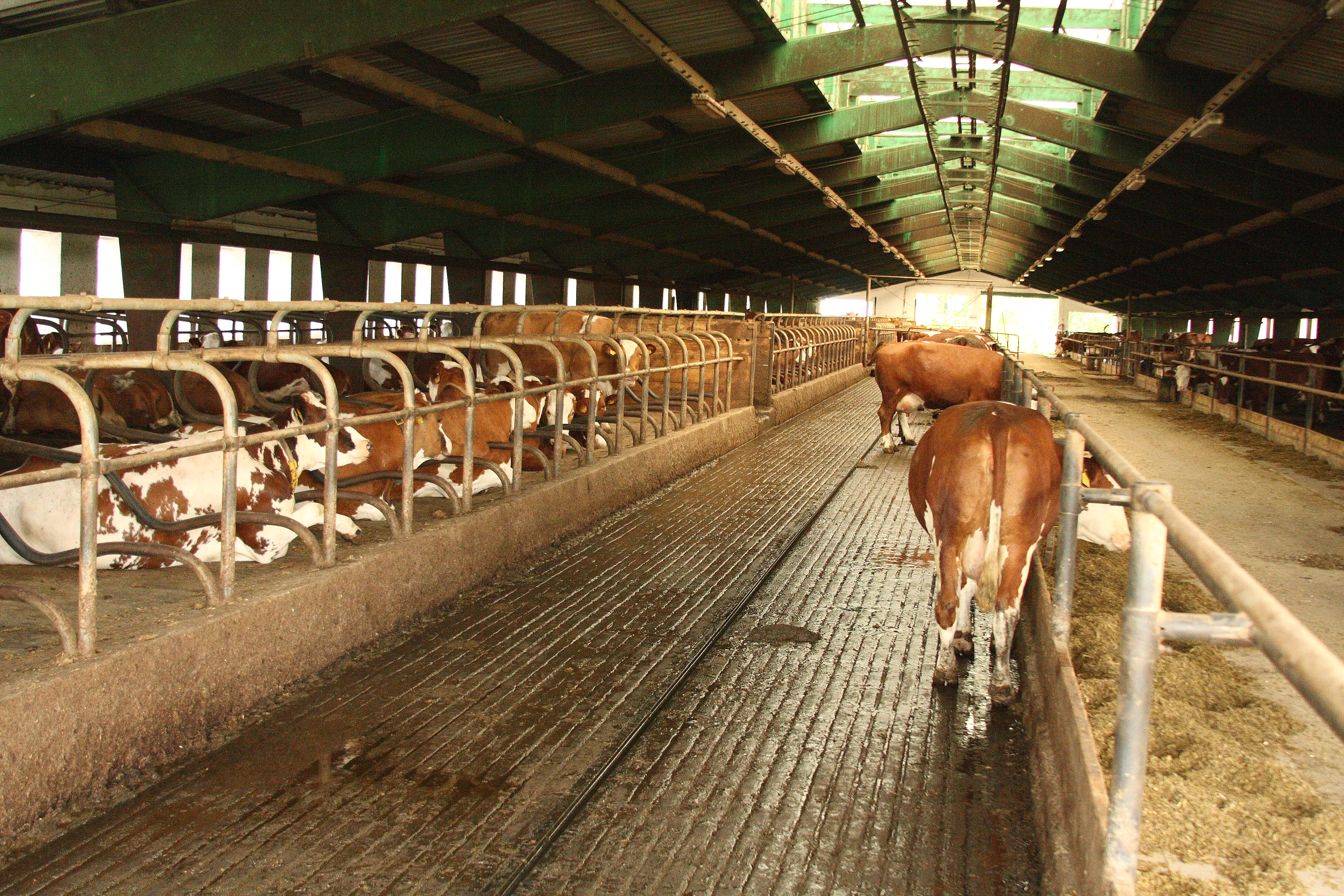 slurry system